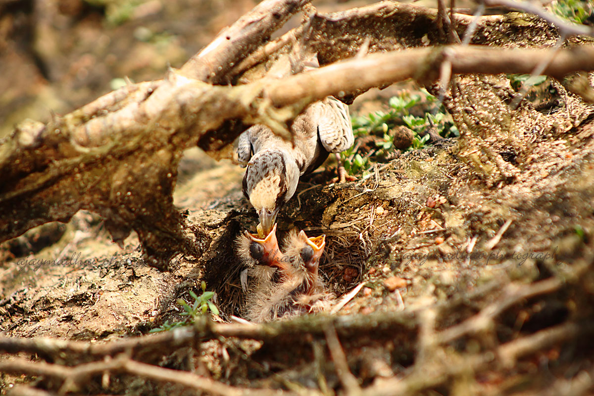 I had shoot this moment after waiting 4 hours in a forest.